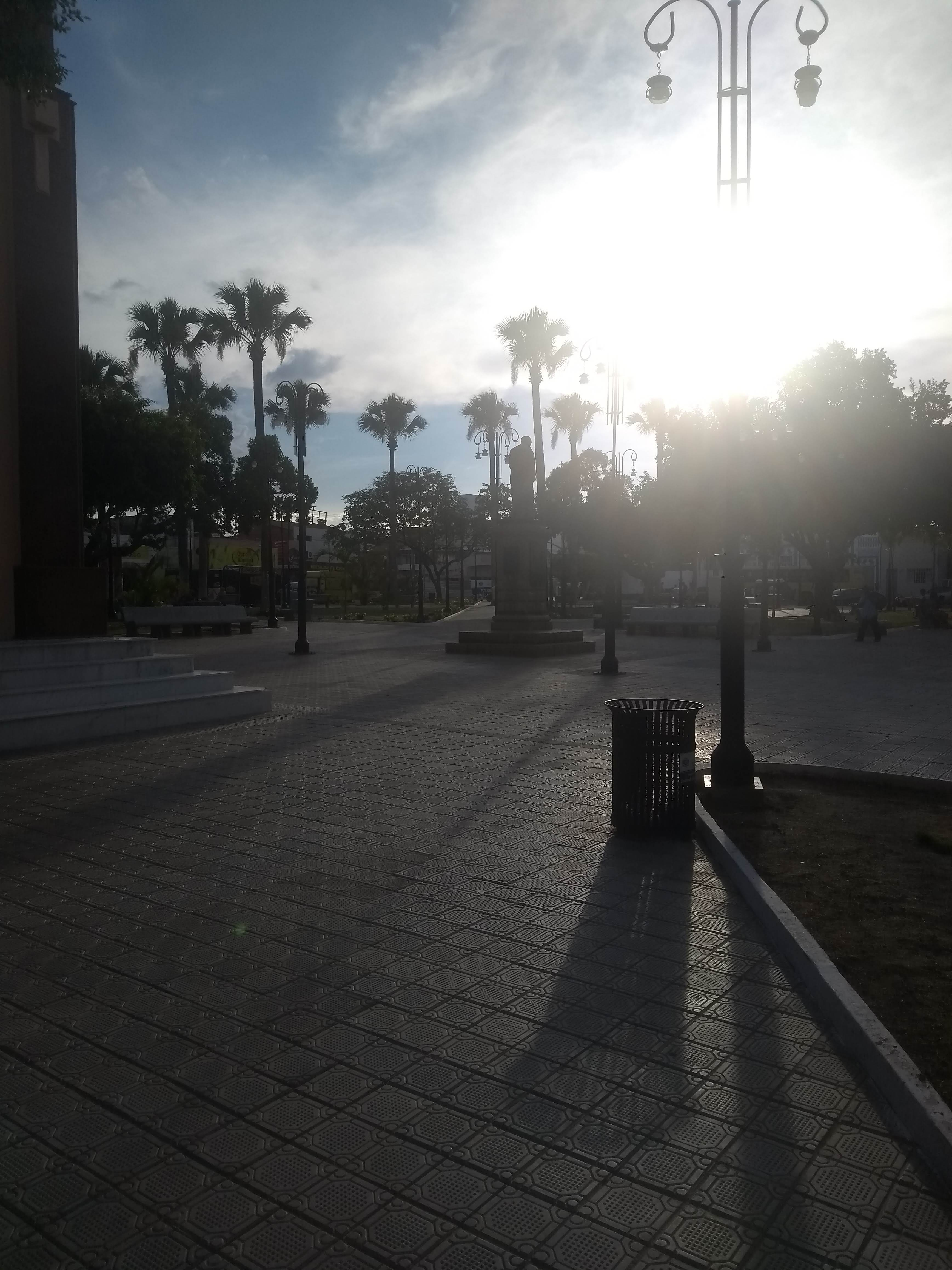 Coração de Juazeiro, cartão postal da cidade